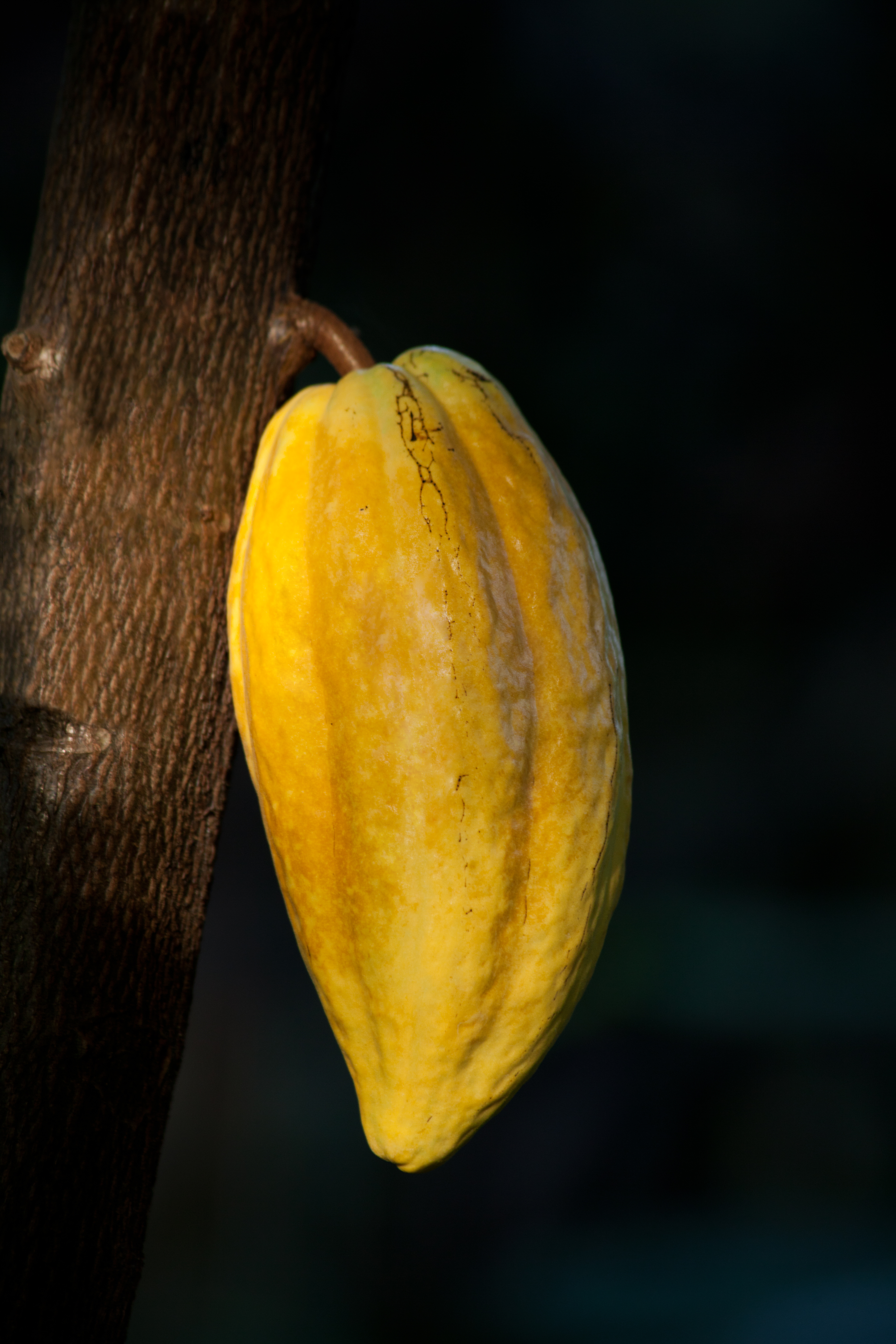 A Theobroma cacao fruit in the botanical garden of Hamburg.